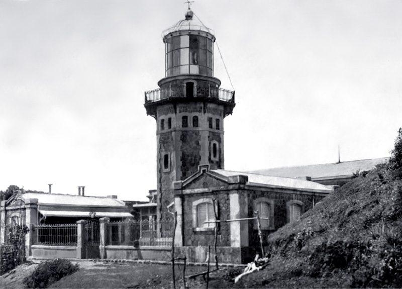 The First-order Cape Engaño Lighthouse on Palaui Island in Cagayan Province, Philippines. It was built during the Spanish Colonial Era and first lit on December 30, 1892.